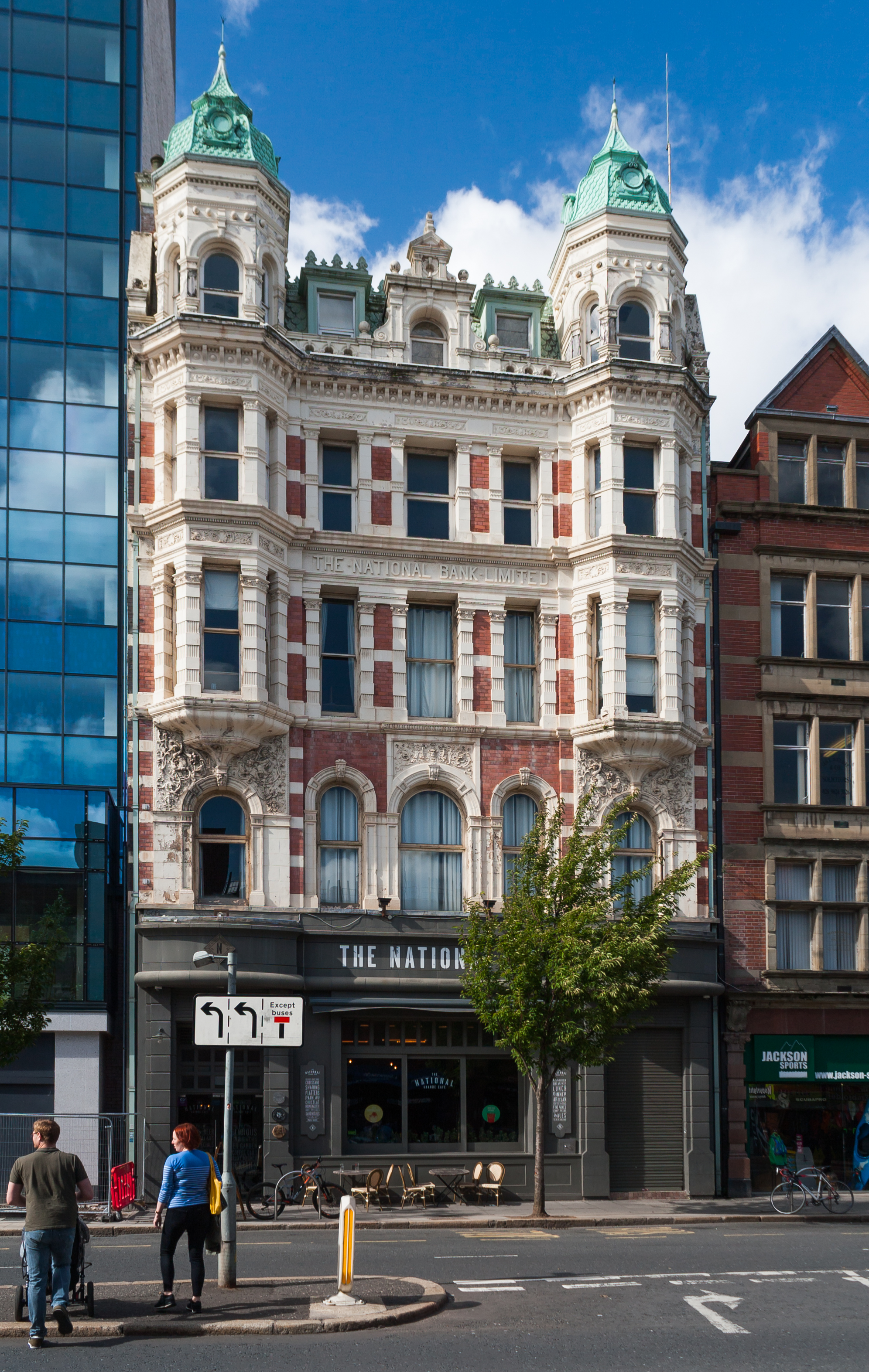 National Bank in High Street, building completed in 1897 after the designs of the architect William Batt in a High Victorian style. The external design displays a combination of brick and terra-cotta in front. The ground floor was refaced. (See C. E. B. Brett, The Buildings of Belfast, p. 56.)